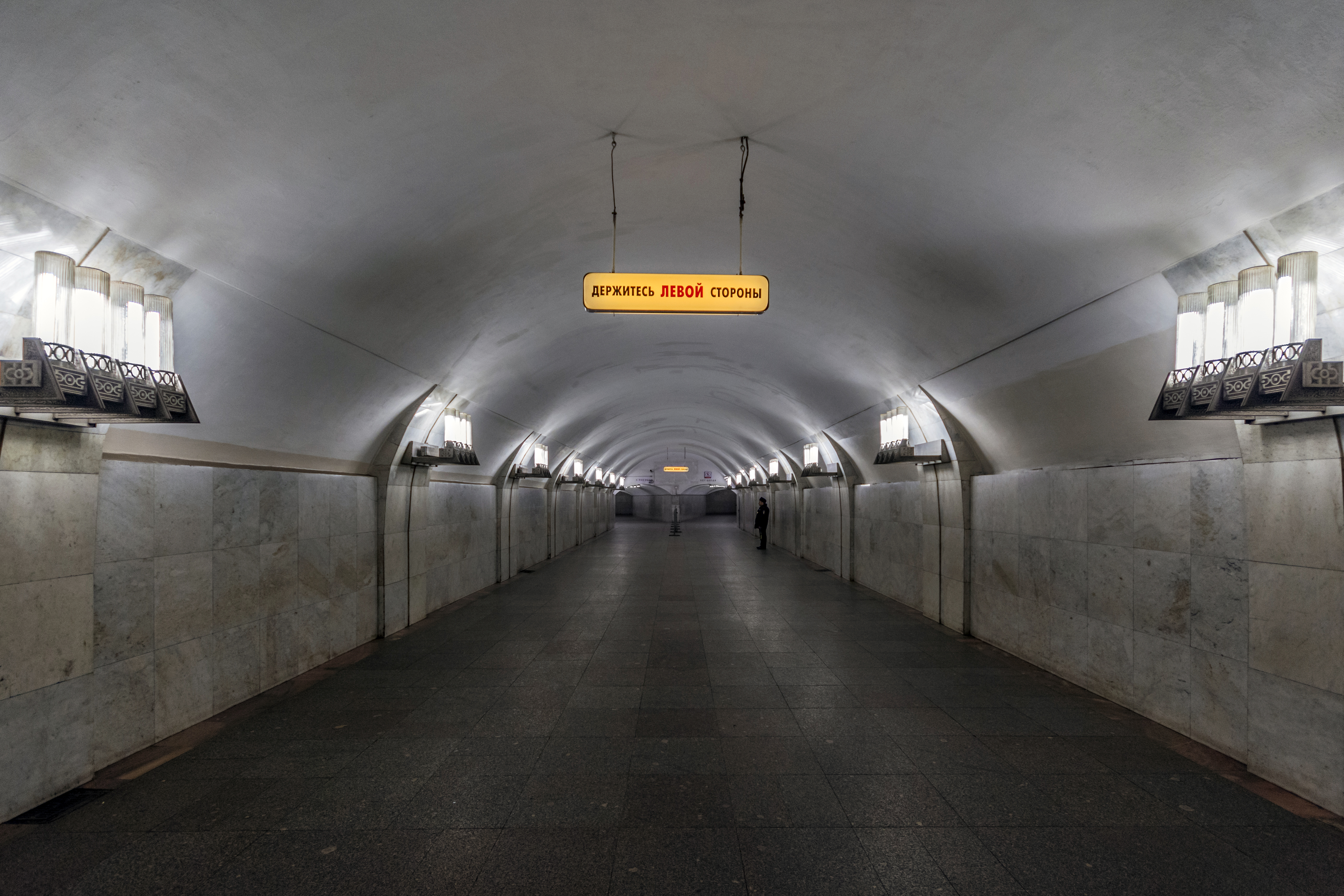 Transitional Corridor between Pushkinskaya and Tverskaya Stations of Moscow Subway